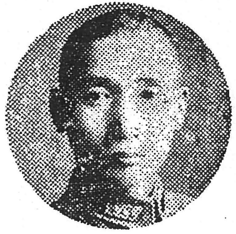 Zhang Zhizhong